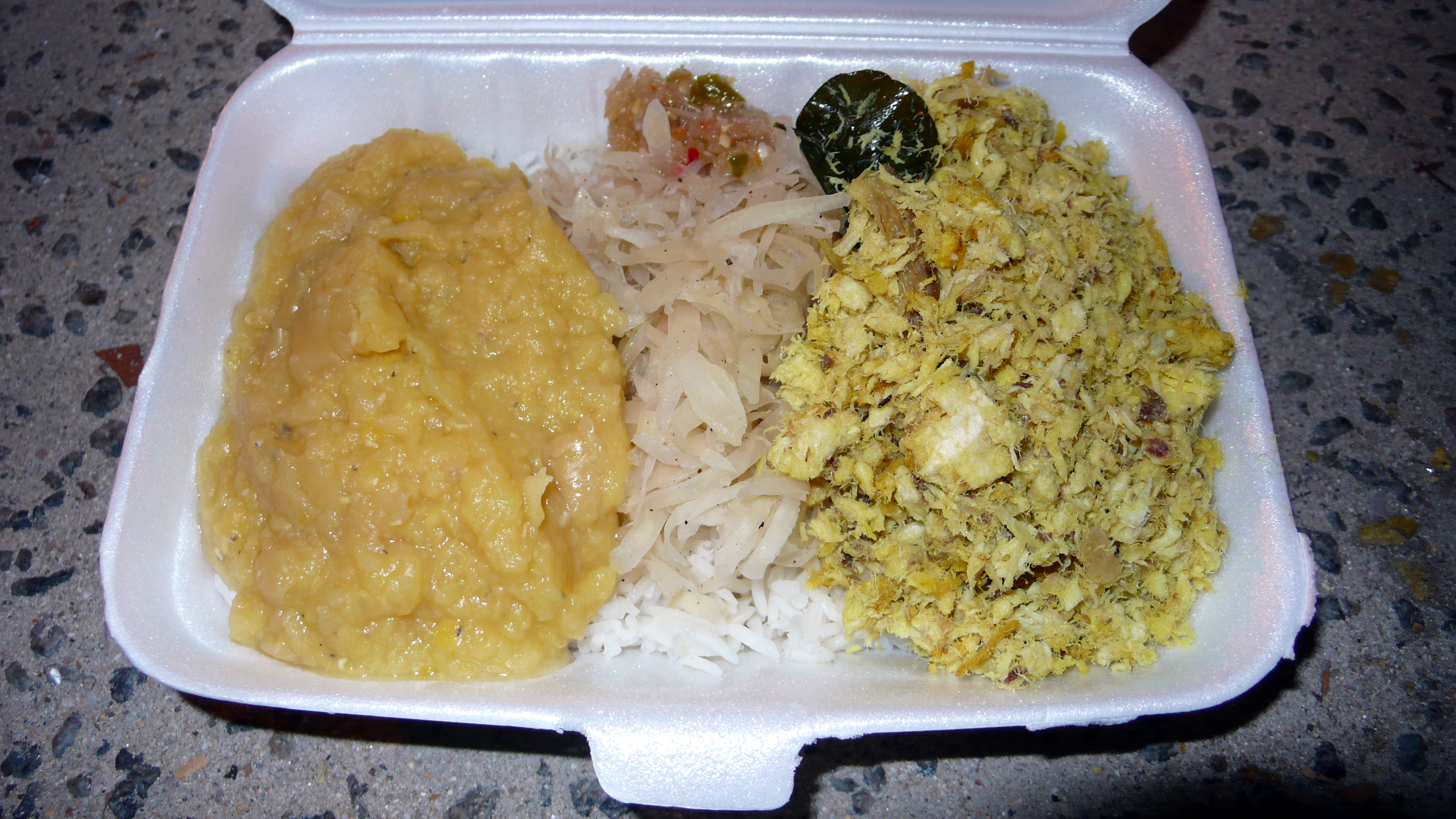 Meal served in Mahé, Seychelles on October 20, 2010, consisting of shark chutney, lentils, and shredded green papaya on rice.